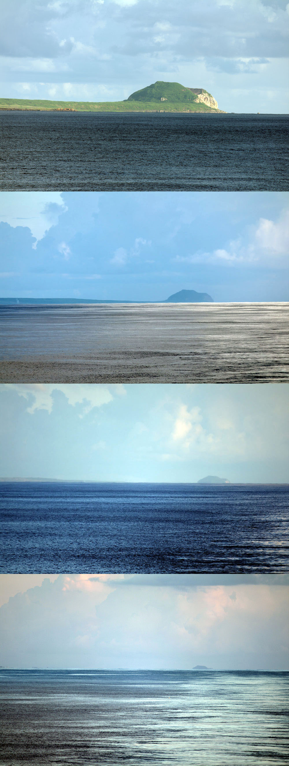 硫黄島から遠ざかるにつれて，下の部分か見えなくなっていく。これは大地球形説の証拠である。